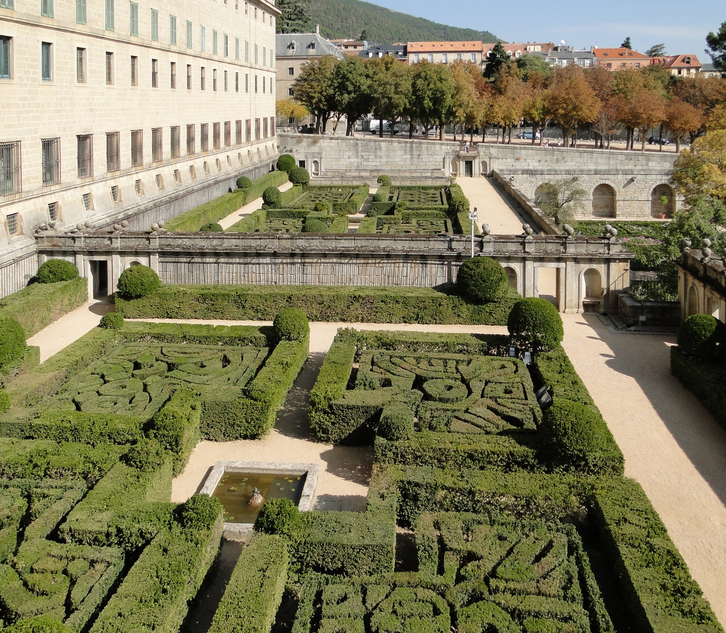 Gardens of Monastery of El Escorial, San Lorenzo of El Escorial, Spain